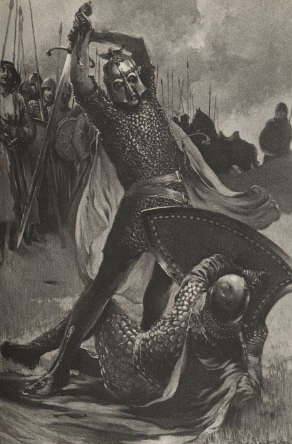 Eric Pape's illustration for Lyrics and Old World Idylls by Madison J. Cawein (1907). "...so King Arthur shook And headlong flung Sir Accolon. Then took, Tearing away, that scabbard from his side And hurled it through the lists, that far and wide Gulped in the battle breathless. Then, still wroth, He seized Excalibur; and grasped of both Wild hands, swung trenchant, and brought glittering down On rising Accolon. Steel, bone and Brawn That blow hewed through. Unsettled every sense. Bathed in a world of blood, his limbs lay tense A moment, then grew limp, relaxed in death." (Cawein's "Accolon of Gaul" (1889), p. 285)